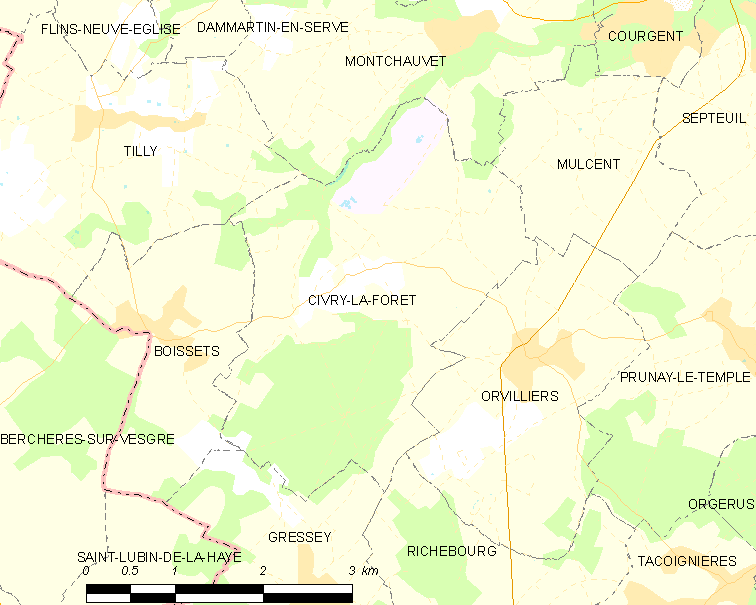 Map of French municipality Civry-la-Forêt